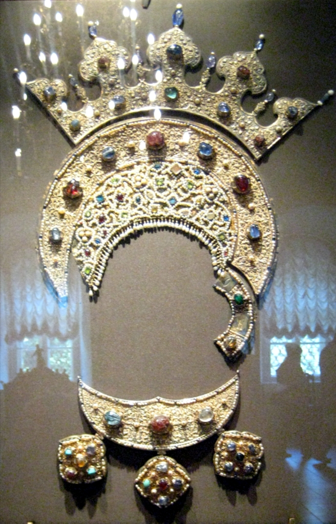 Riza, Риза (венец с коруной и цата) Патриаршее подворье.